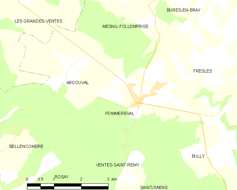 Map of French municipality Pommeréval